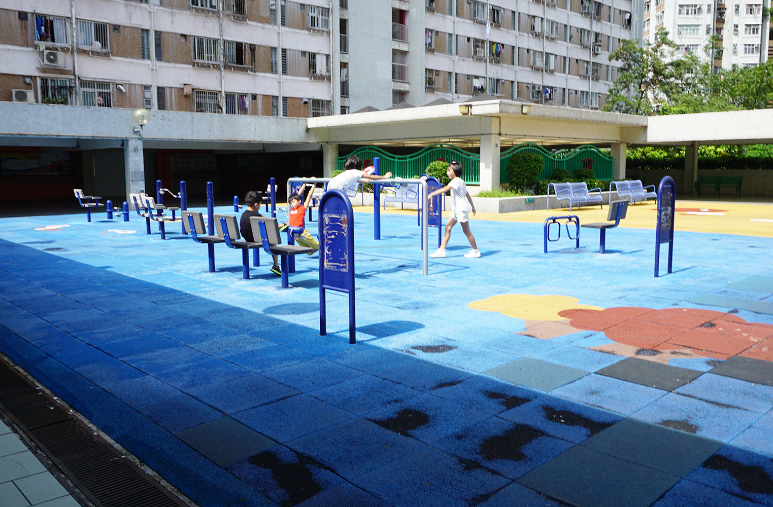 Cheung Wah Estate in Fanling, Hong Kong.